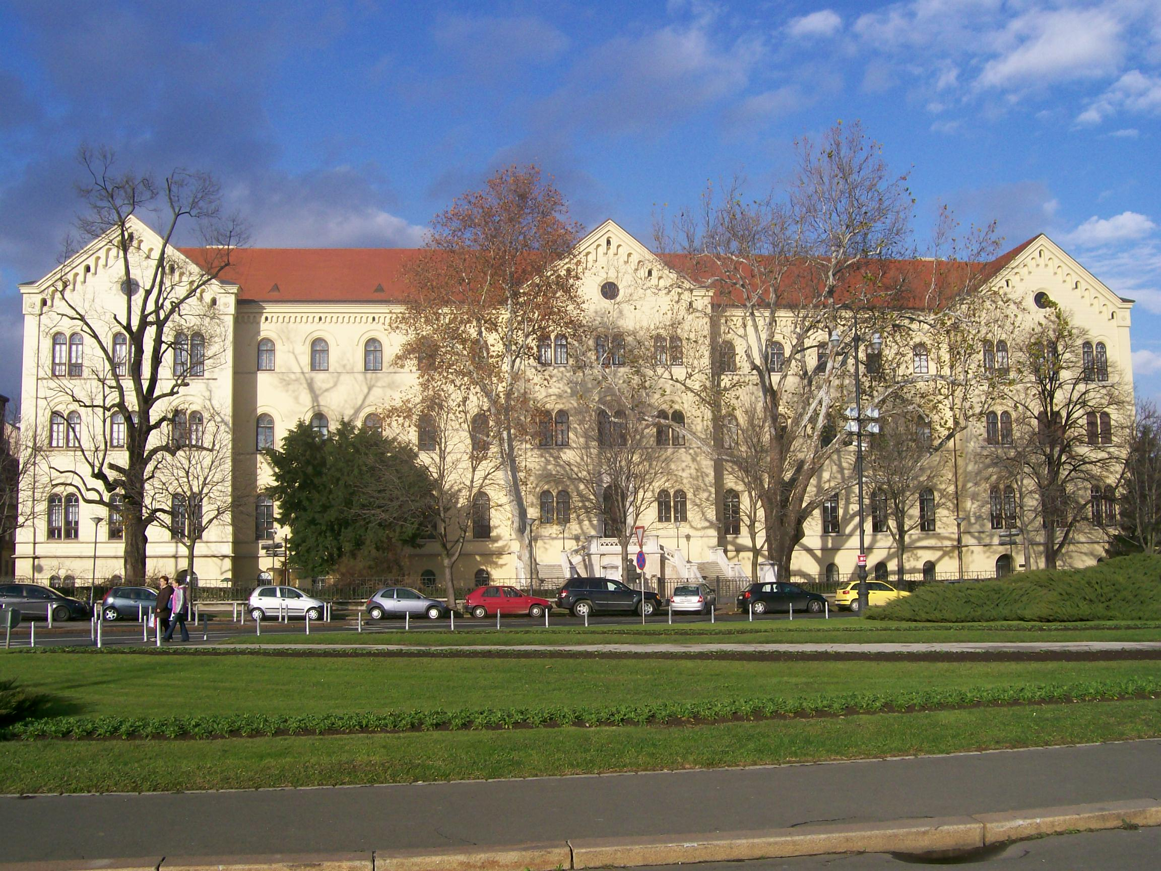 University of Zagreb, Rectorate and Faculty of Law